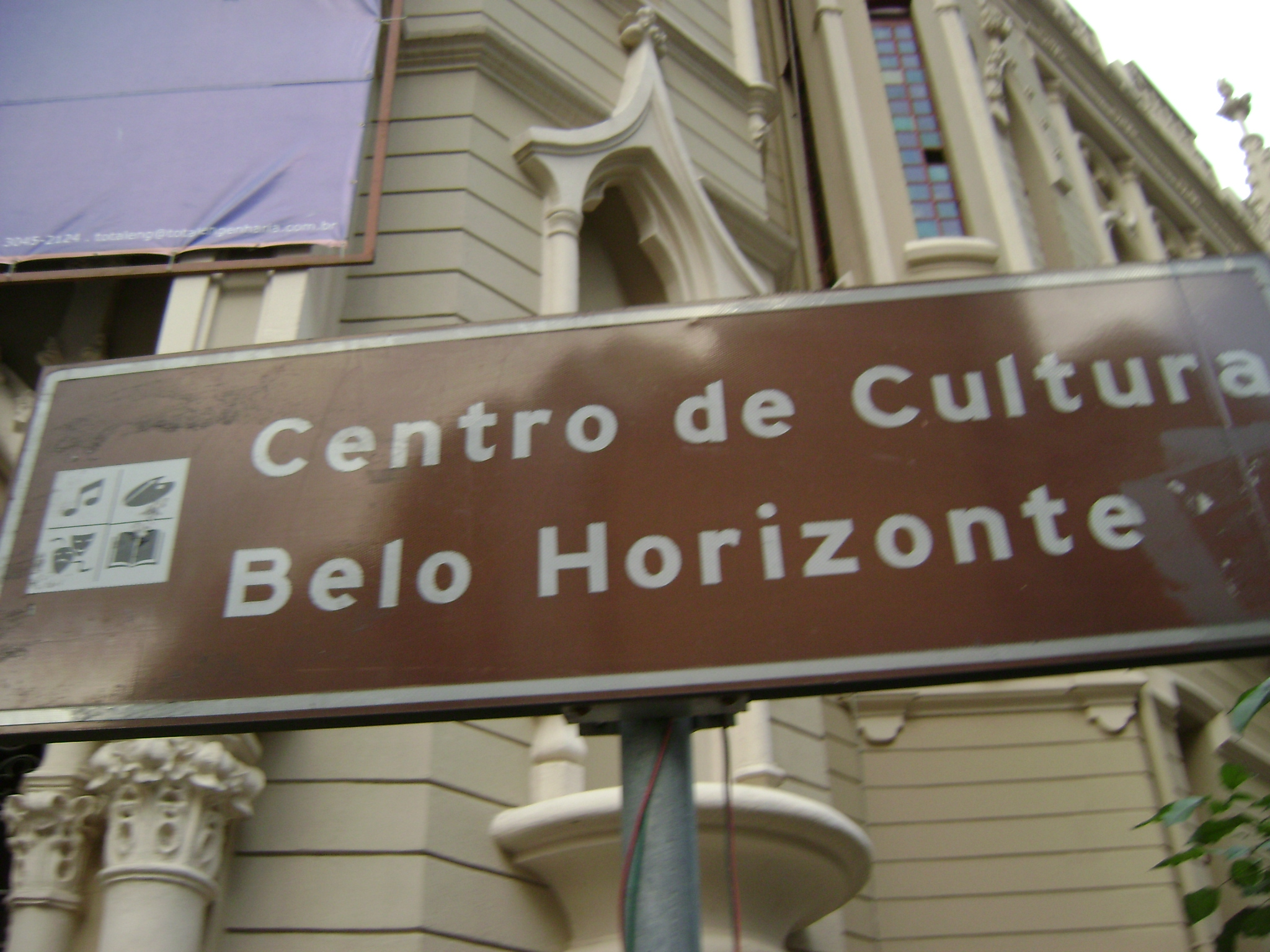 Placa informativa do Centro de Cultura de Belo Horizonte.